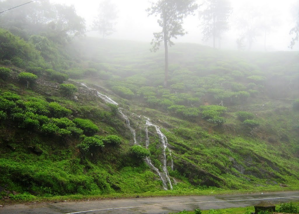 Stream in Peermade tea estates